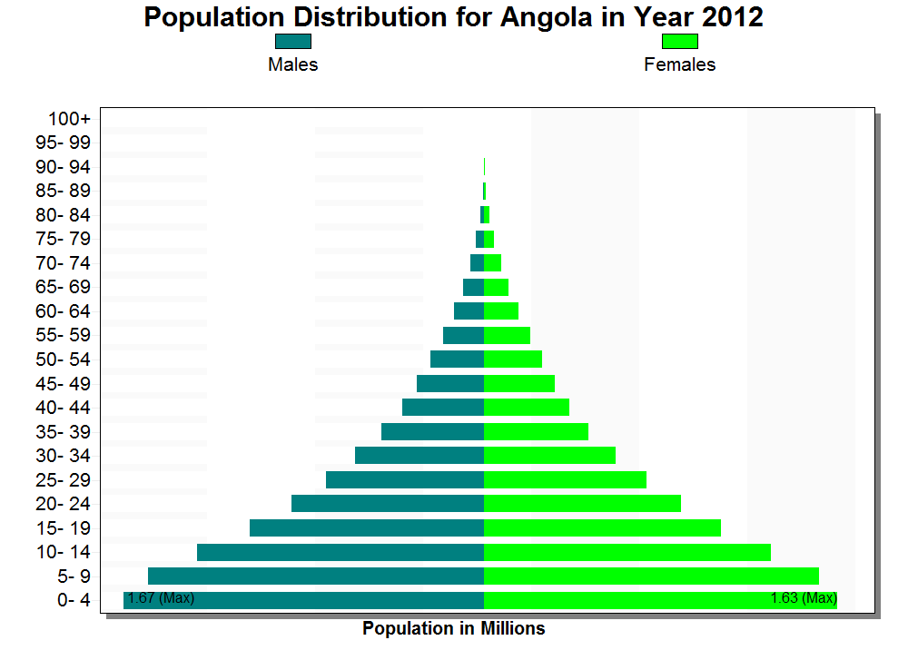 Population Pyramid of Angola in 2012